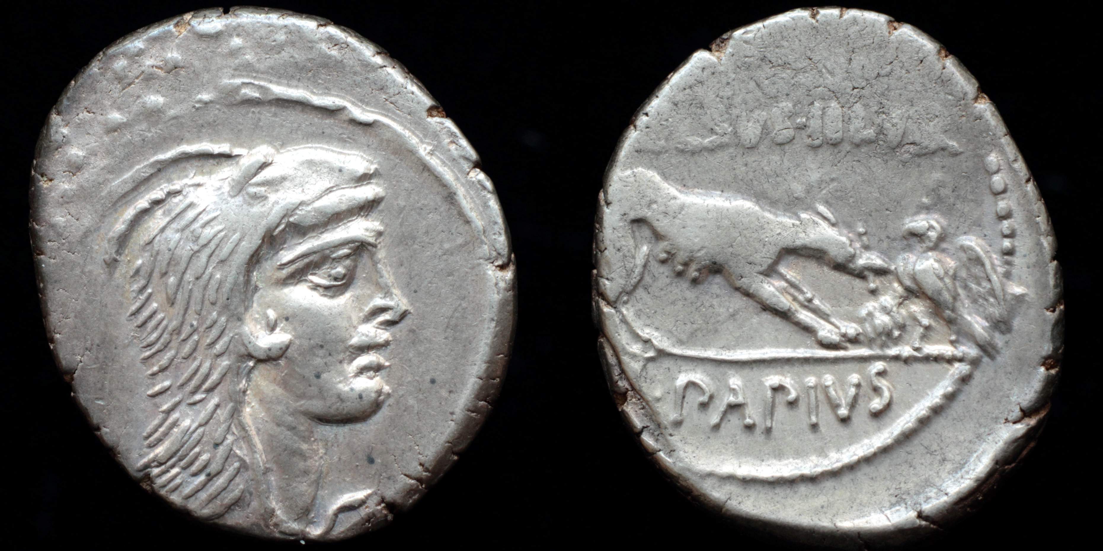 AR denarius of moneyer L. Papius Celsus struck in Rome 45 BC. Obverse: head of Juno Sospita right wearing goat skin Reverse: Lanuvium mythology scene - wolf right placing stick on fire, eagle left fanning flames with its wings CELSVS·III·VIR L.PAPIVS References: Crawford 472/1, RSC I Papia 2